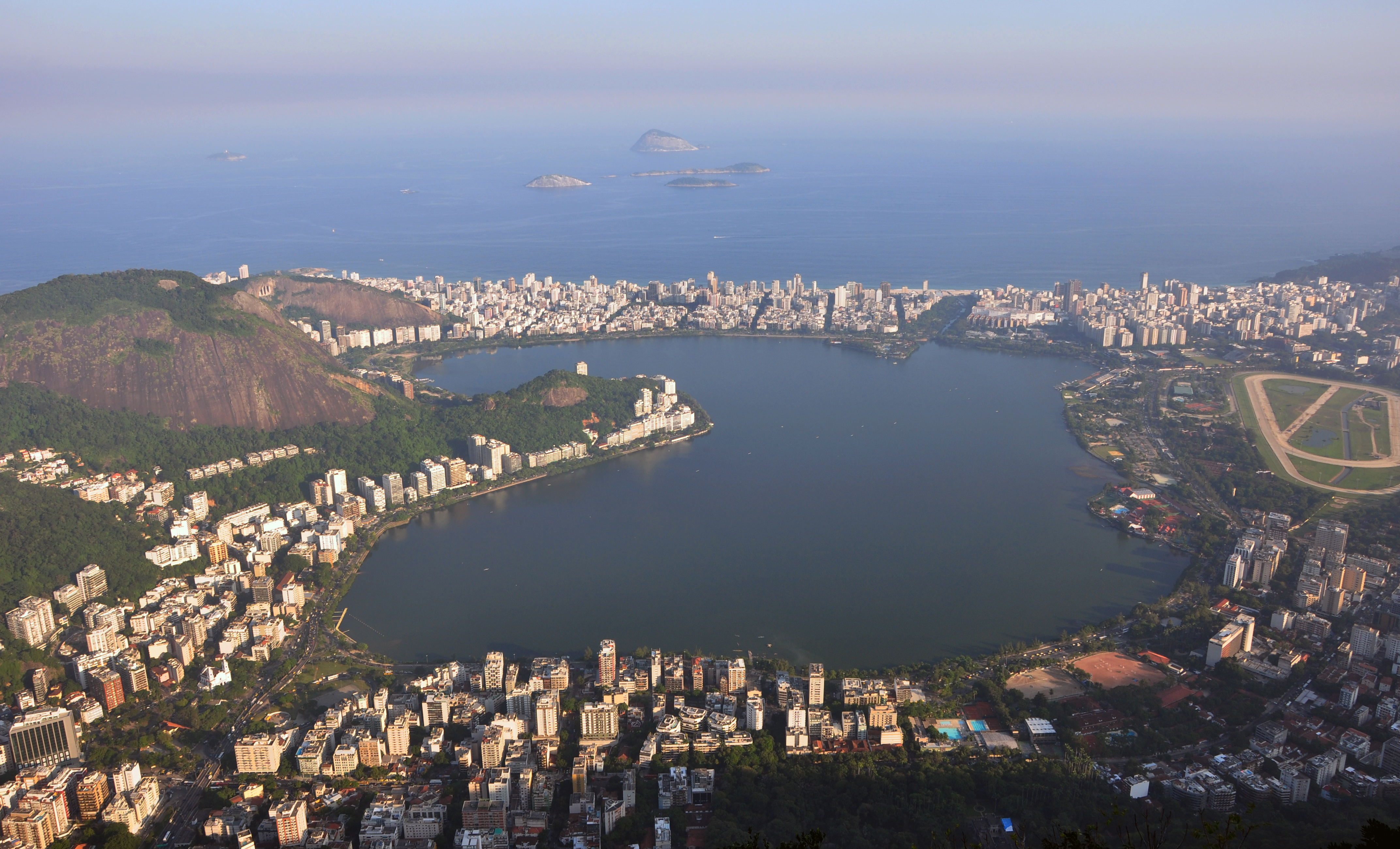 Lagoa Rodrigo de Freitas, Lagoon, Rio de Janeiro 2010